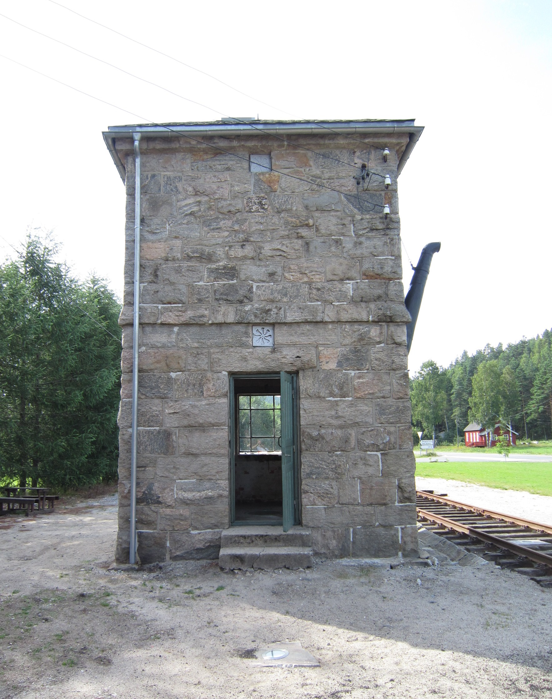 Water tower at Simonstad station